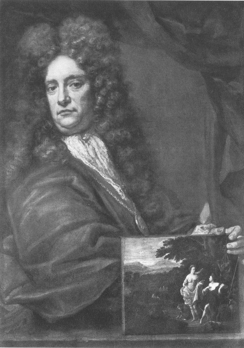 the selfportrait of Eglon van der Neer (1696) is hanging in the Galleria degli Uffizi, Florence.